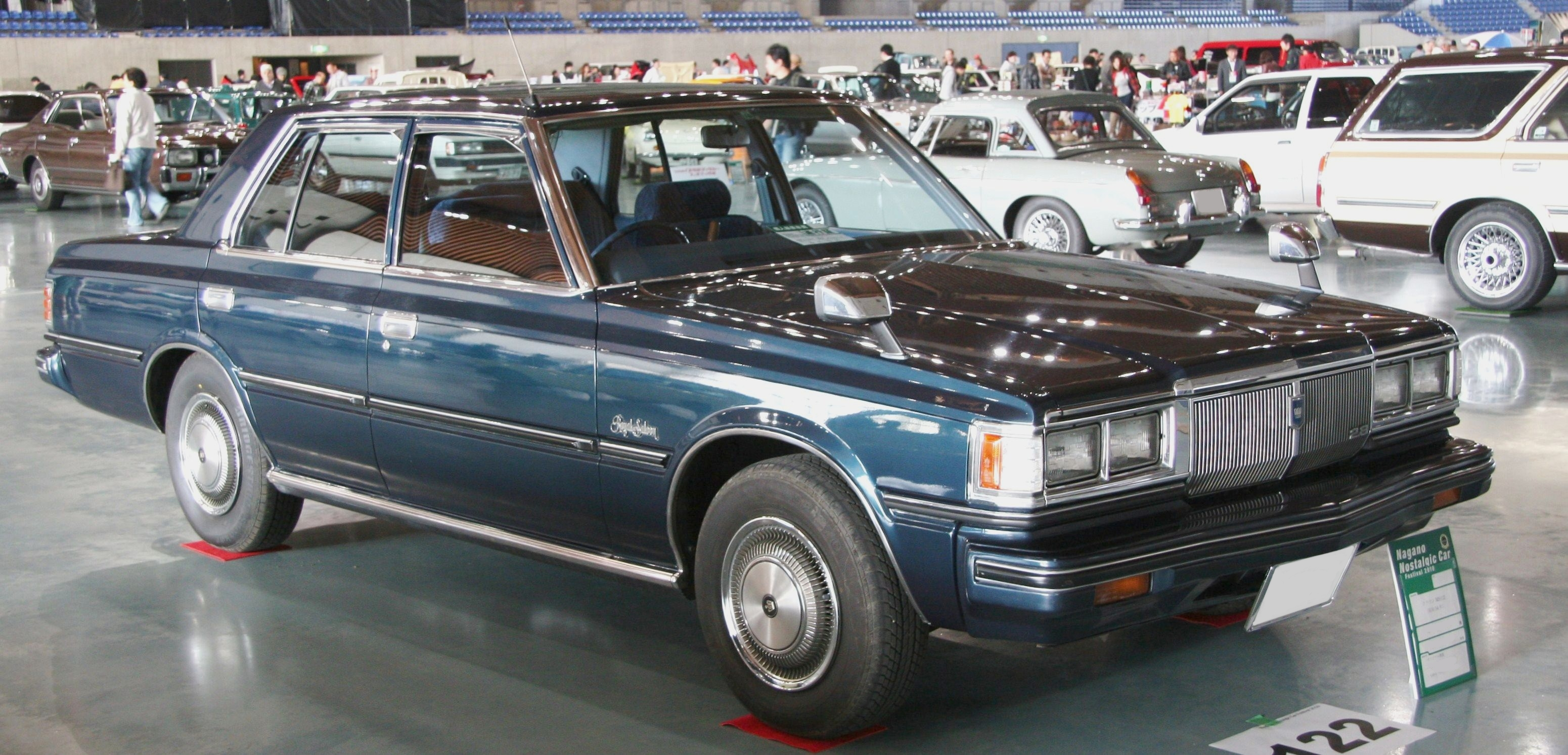 Toyota Crown